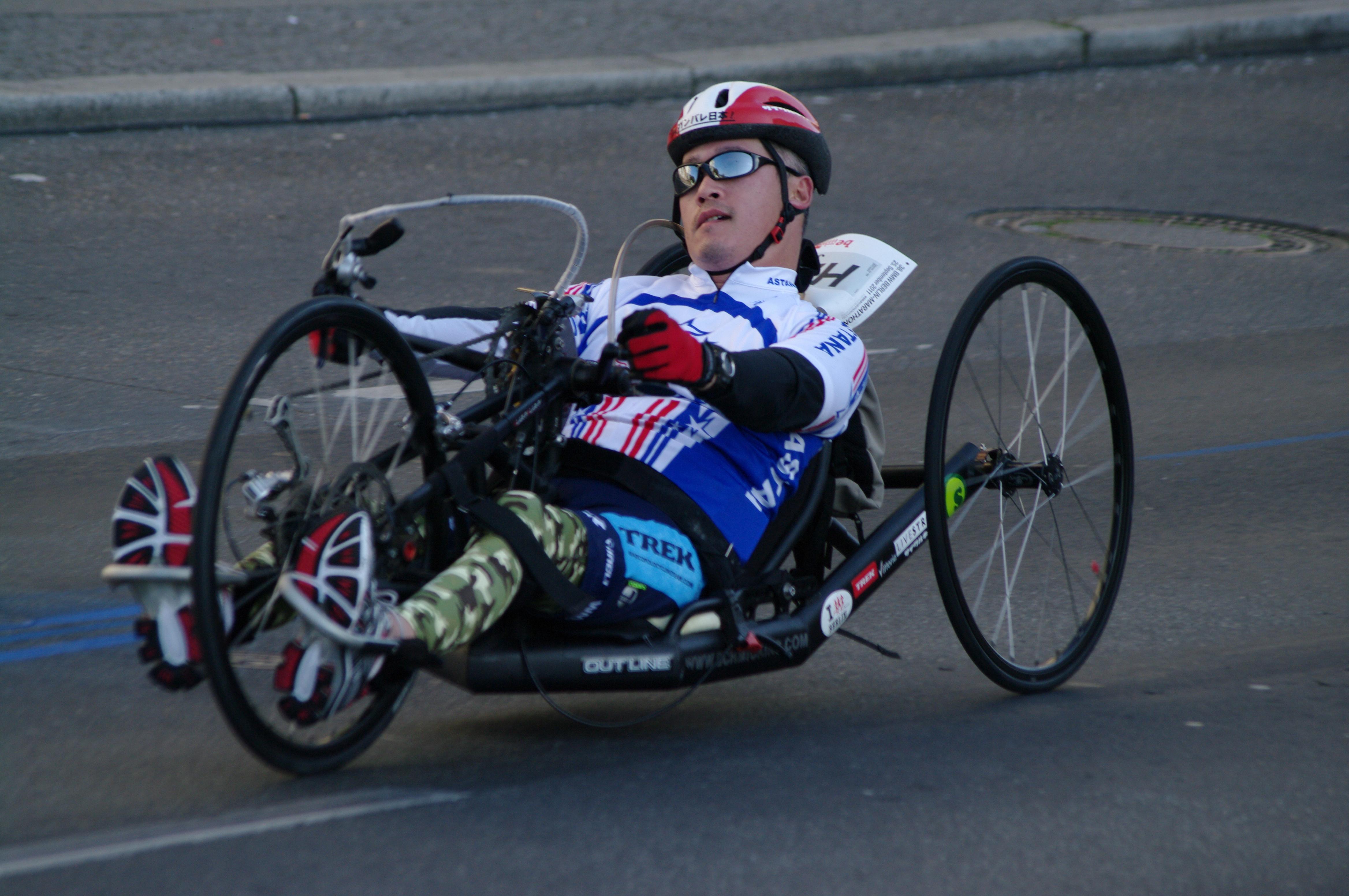 Berlin Marathon 2011 Wheelchair racer at Innsbrucker Platz (km25)